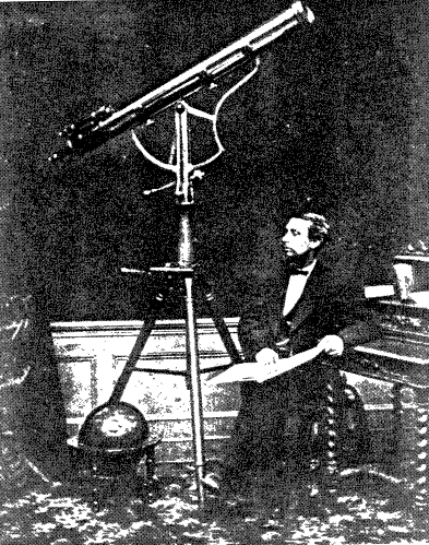 Photograph of Irish amateur astronomer Isaac Ward